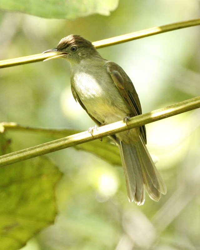 Buff-vented Bulbul (Iole olivacea). Panti Forest, Johor, Malaysia, 18th November 2007.